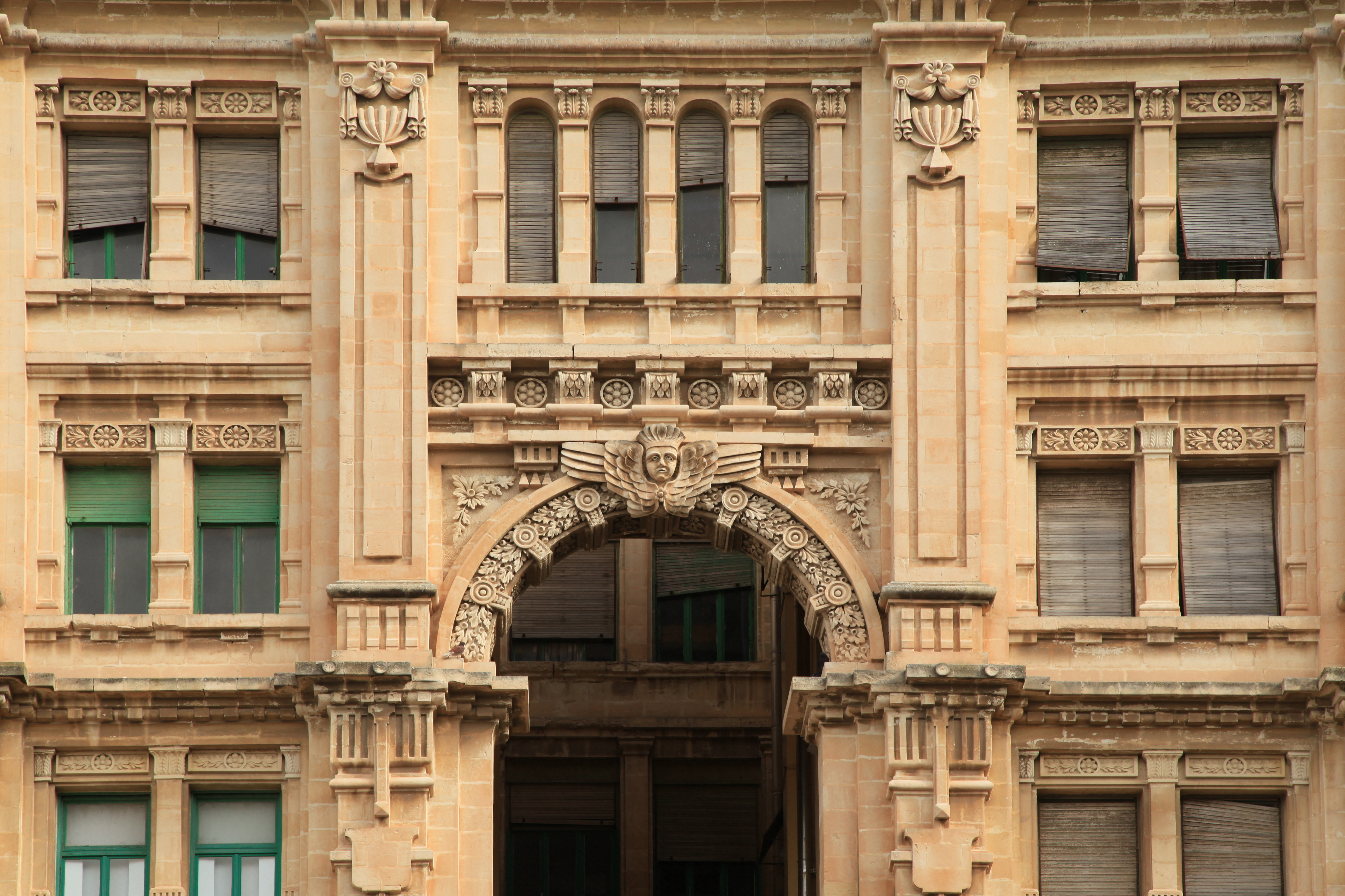 Balluta Buildings, Pjazza tal-Balluta in St. Julian's (San Ġiljan), Malta